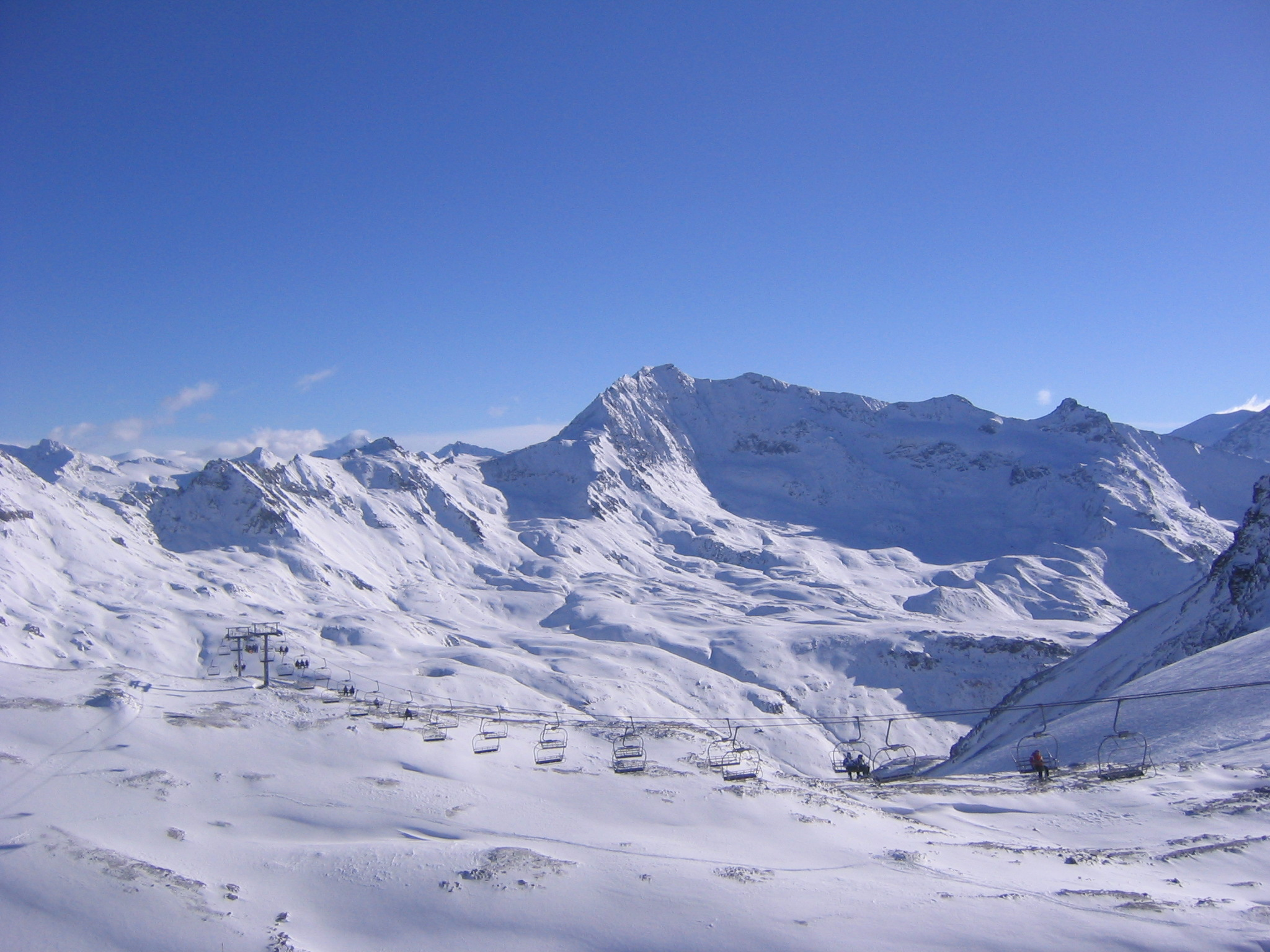 Pointe de la Sana from the Grande Motte skilift